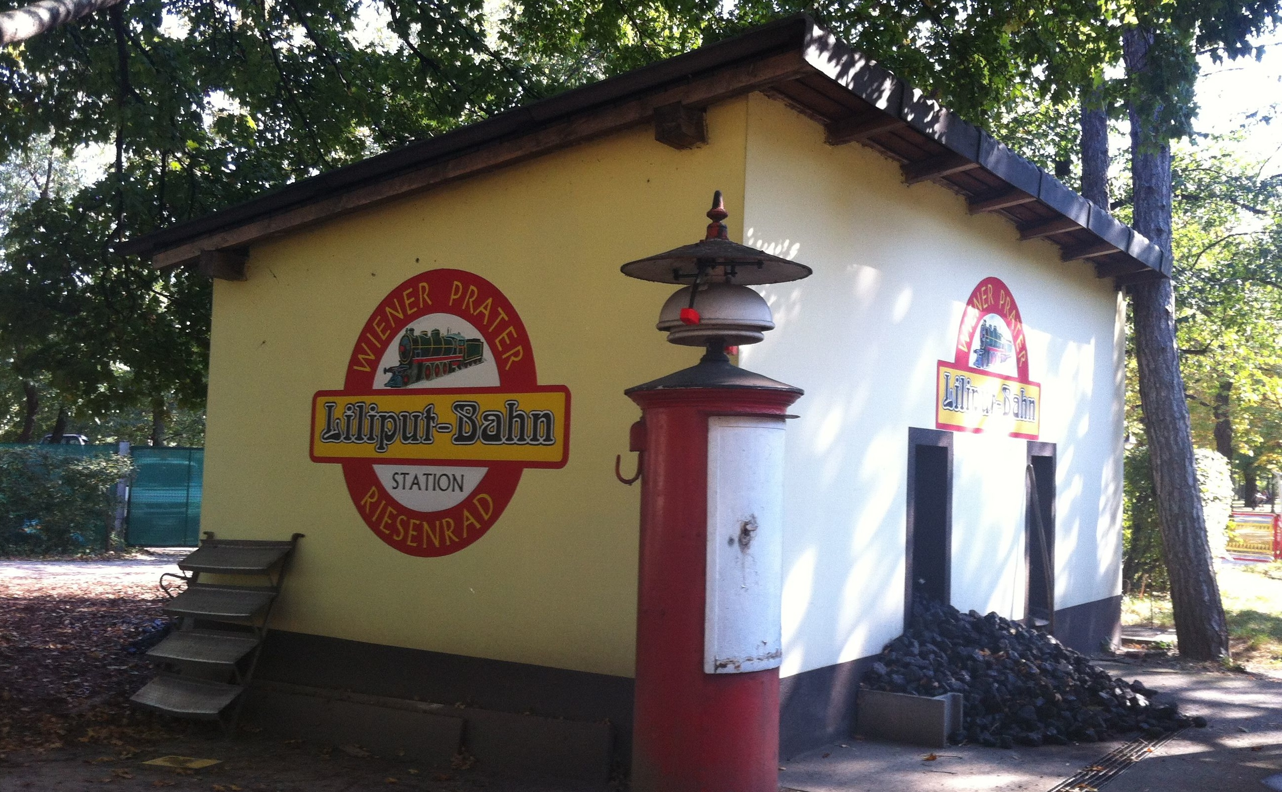 The Central railway station of the Prater Liliputbahn, a 15 inch gauge railway in Vienna, Austria.